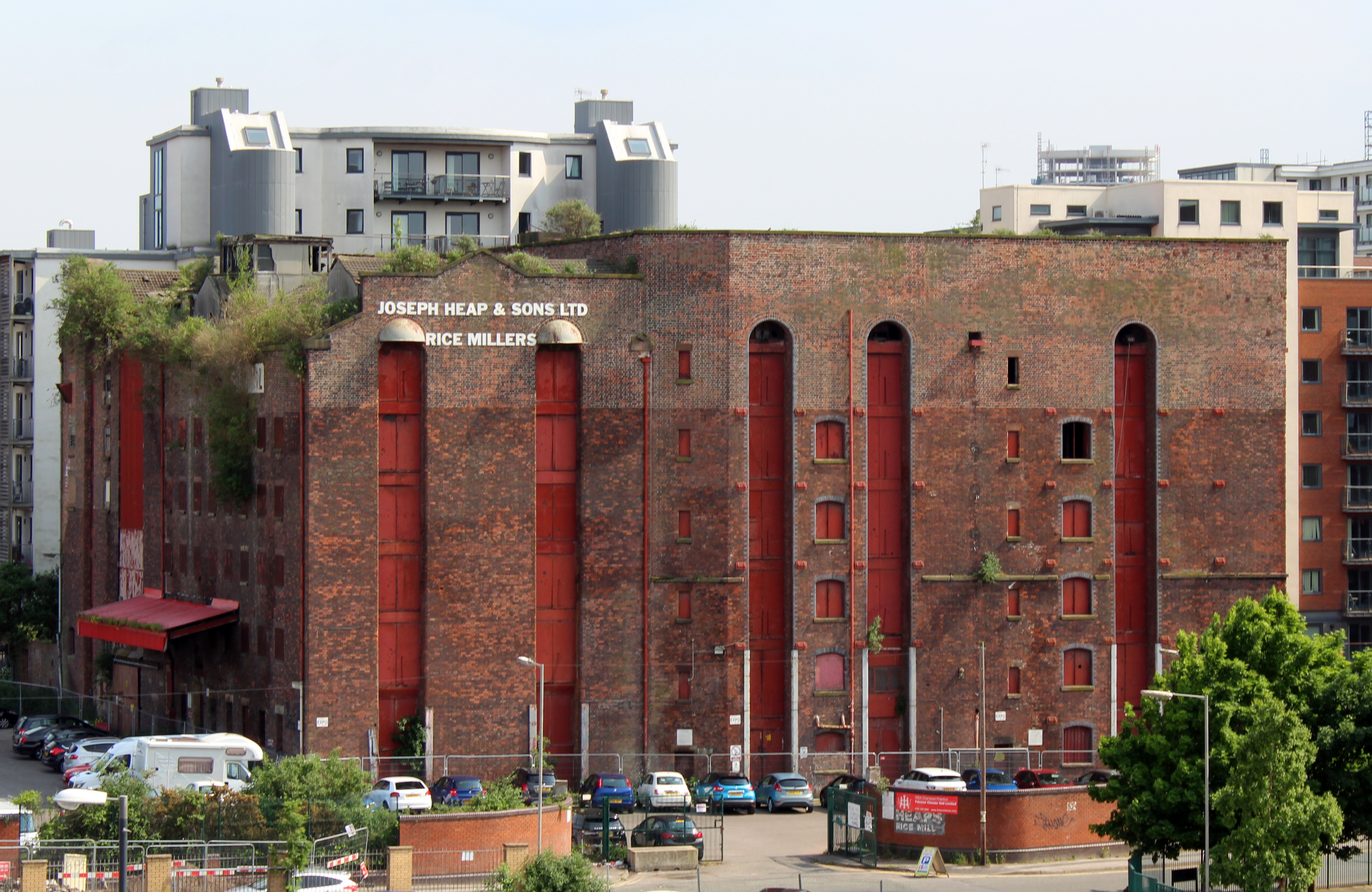 Aerial view from John Lewis car park. Grade II listed warehouse in the Baltic Triangle.